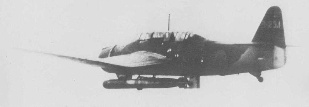 An Aichi B7A Ryusei "Grace" is carrying torpedo. The tail number "ヨ-251" means this aircraft belongs Yokosuka Navy Flight Team.